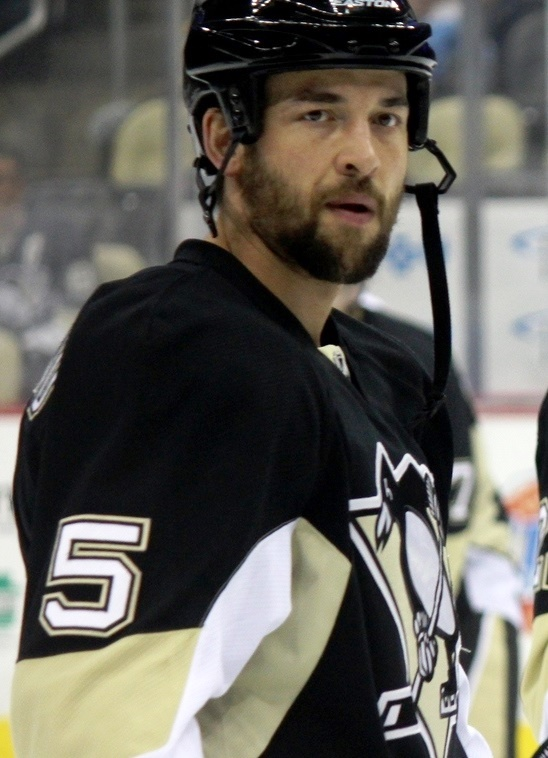 Pittsburgh Penguins defenseman Deryk Engelland warms up prior to a game against the Tampa Bay Lightning, March 22, 2014, at Consol Energy Center in Pittsburgh, PA.